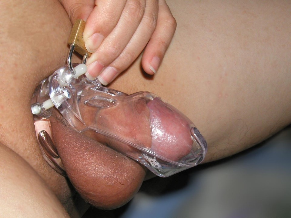 chastity CB3000